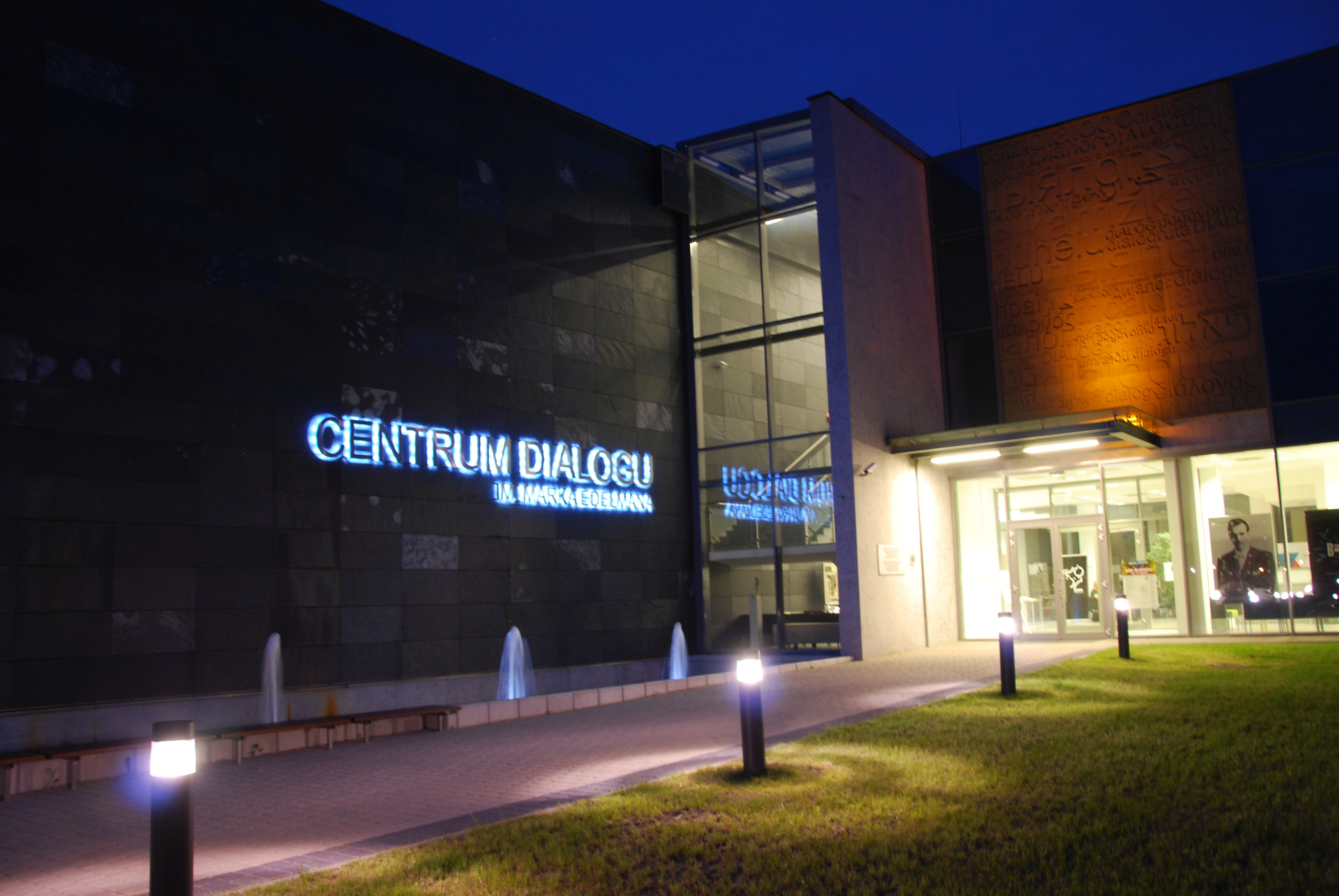 Long Night of Museums in Łódź 2015 Marek Edelman Dialogue Center